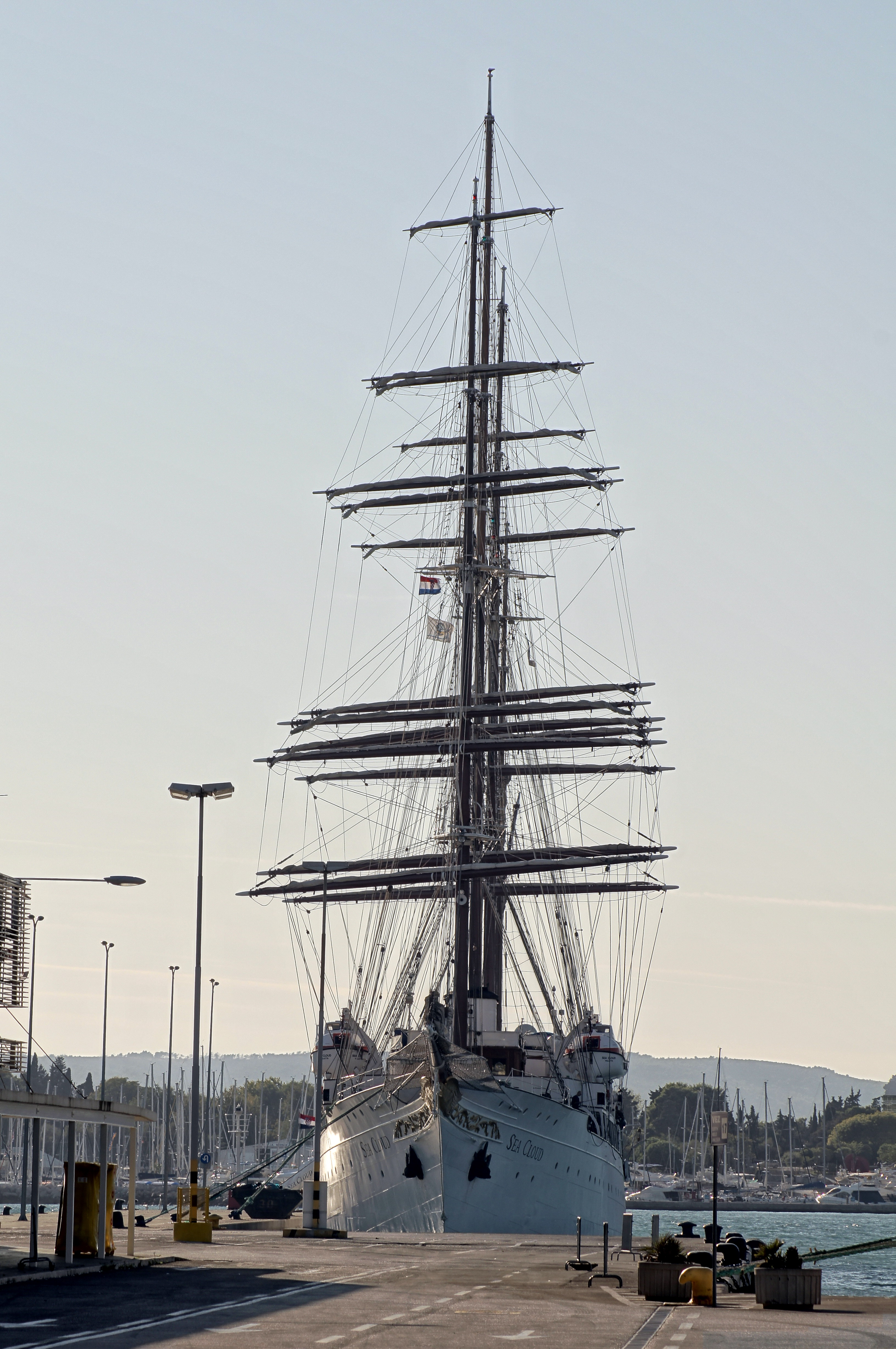 Sea Cloud (ship, 1931) IMO 8843446; in Split, on 2011-09-30